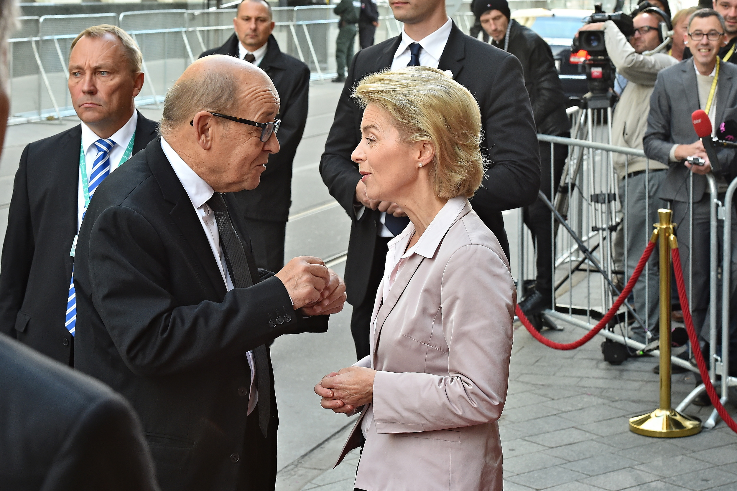 Informal FAC/defence- France, Mr Jean-Yves Le Drian Defence Minister - Germany, Mrs Dr. Ursula- Getrud von der Leyen, Federal Minister of Defence Photo Rastislav Polak